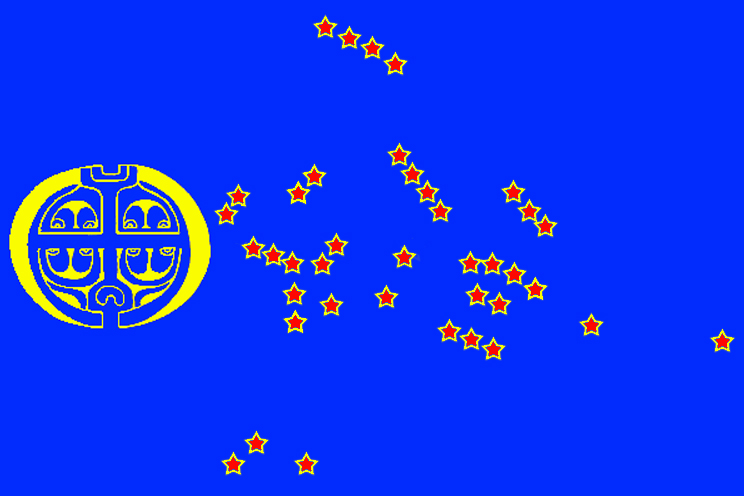 Unofficial flag_of_Polynesian_peoples created by Herb Kawainui Kāne (to sale in the souvenir shops, Hawaii)